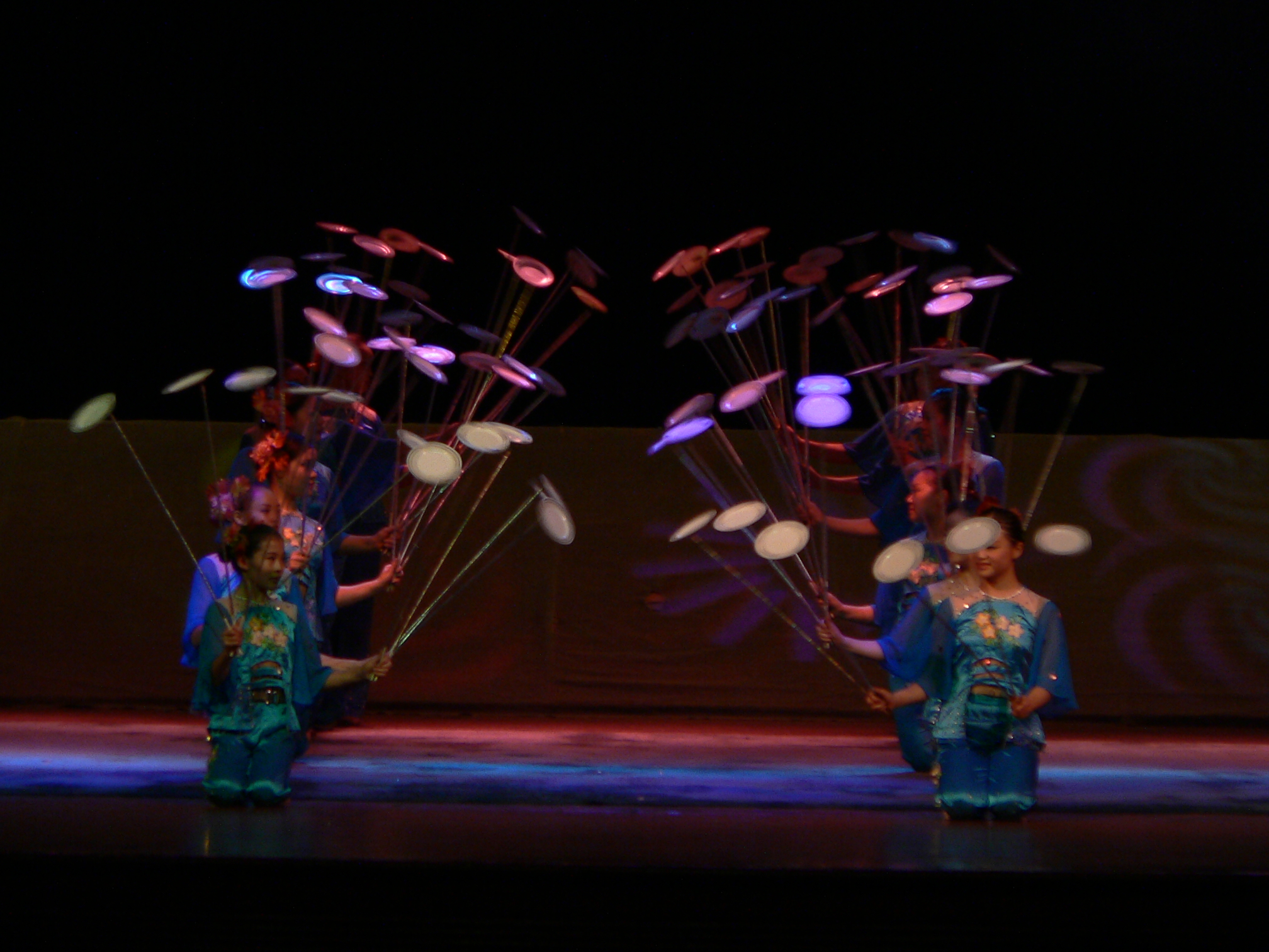 Chinese variety art A balancing routine in Chinese theatre